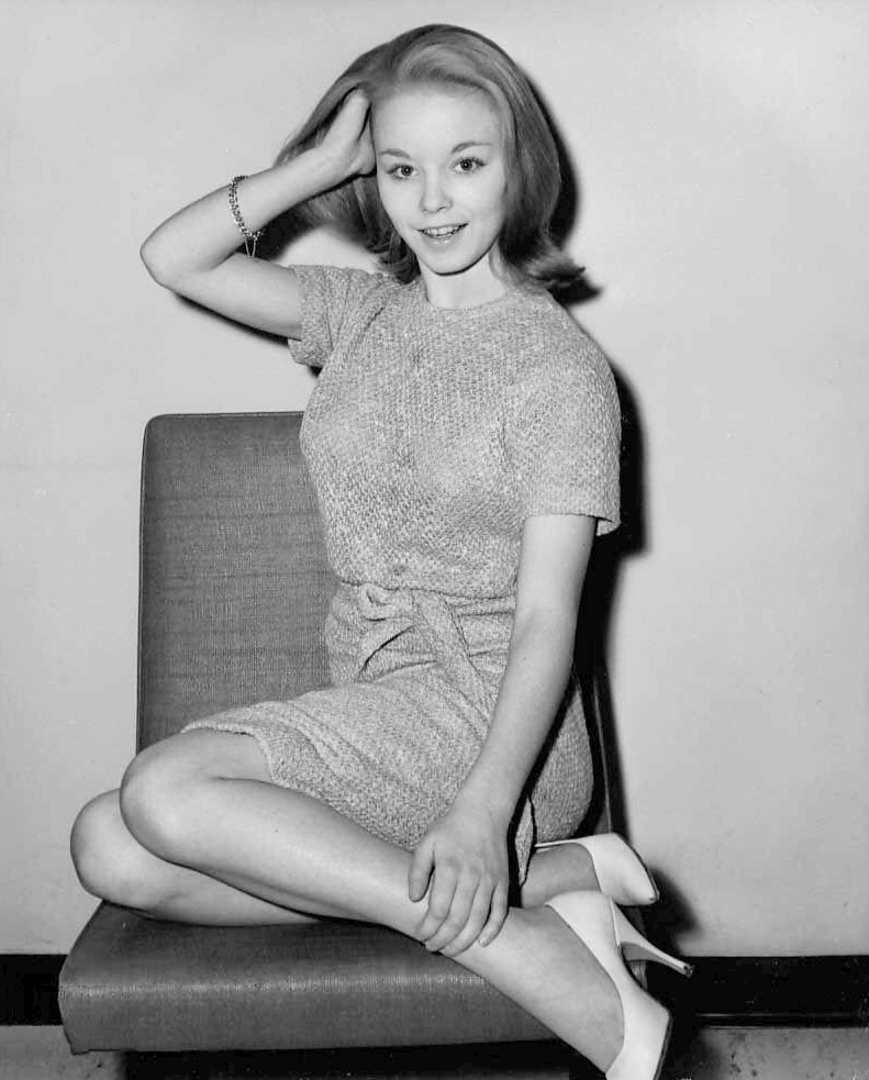 Photo of Jill Haworth at Idylwild (now JFK) airport in New York.